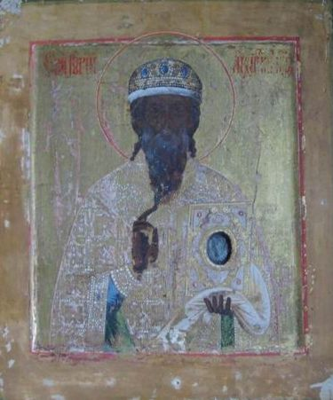 saint Gyrii of Kazan (icon whis relic)